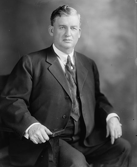 Samuel C. Major, Missouri Congressman.